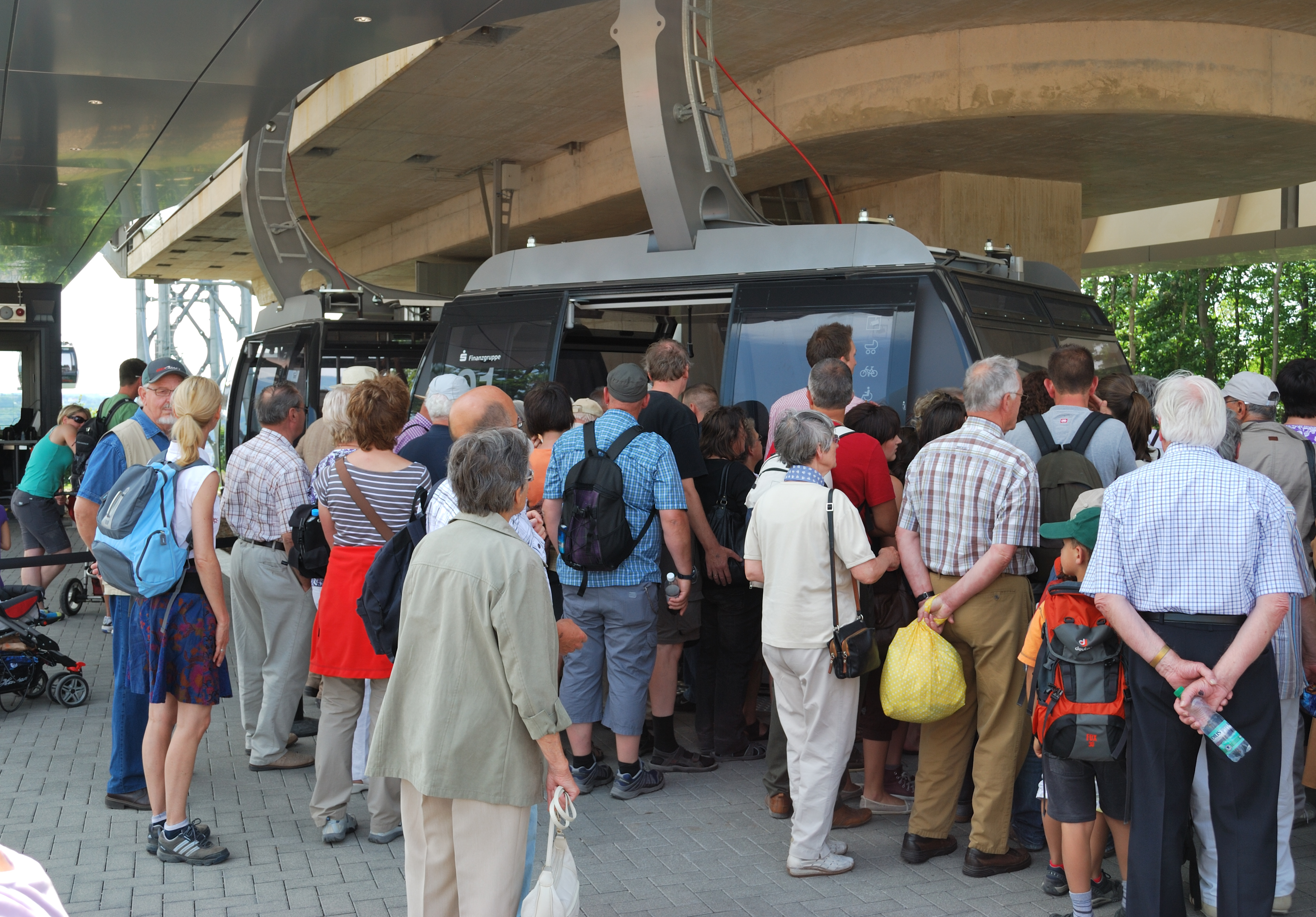 The National Garden Show 2011 in Koblenz - Koblenz Cable Car.